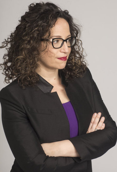 This is a photo of Amy Webb taken in December 2018 in New York City. Amy Webb is an American Futurist.